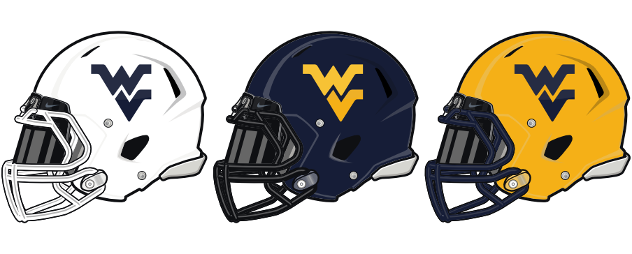 A graphic depiction of West Virginia University's football helmets.